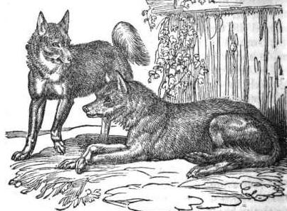 A pair of British wolfdogs.